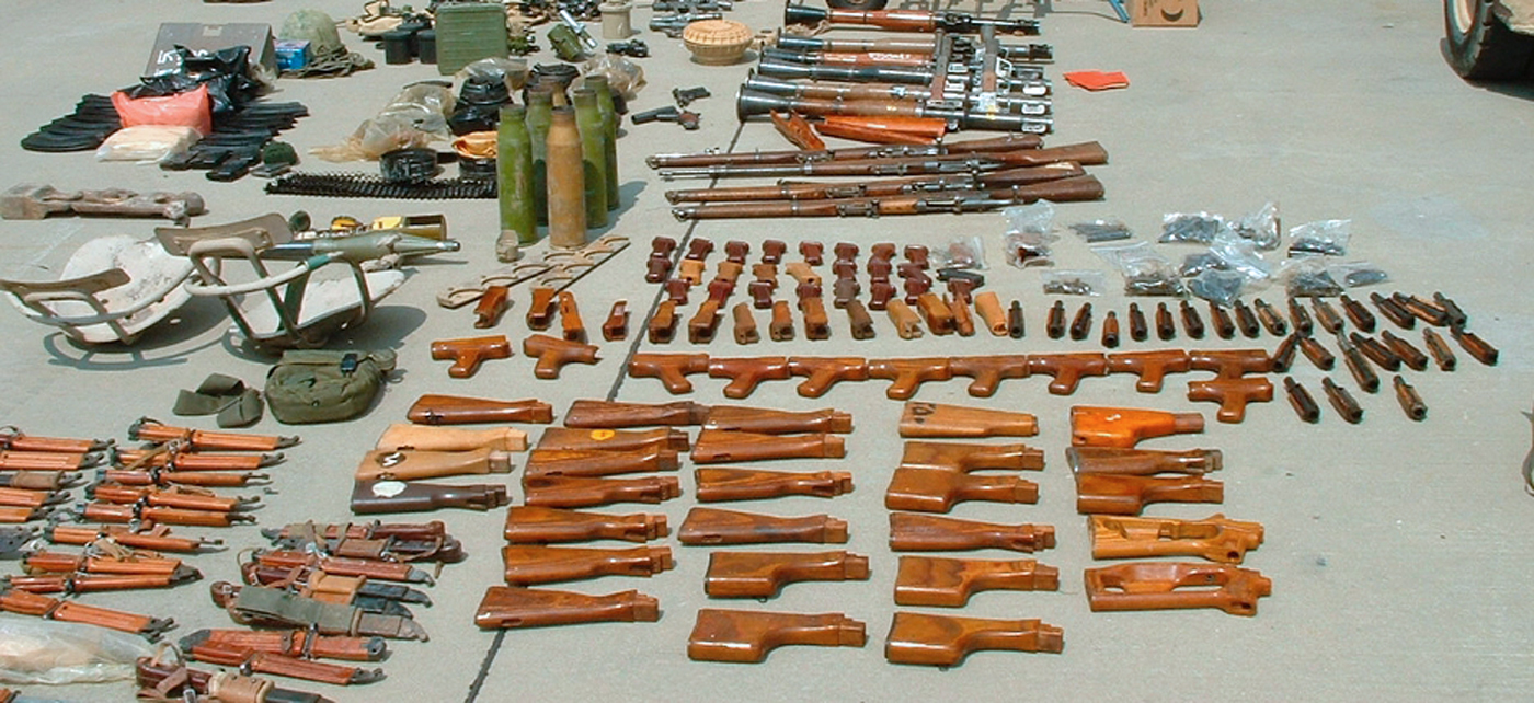 EGLIN AIR FORCE BASE, Fla. -- Maj. Gregory McMillion was found guilty of bringing contraband material from Iraq, including the above weapons. Major McMillion was found guilty on three of the four charges against him and is sentenced to one year confinement and dismissal from active duty. (U.S. Air Force photo)